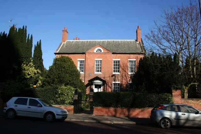 North Muskham Prebend At its core is a 17th century house, added to in c1789 with the facade seen today added c1809, now home to a firm of solicitors.